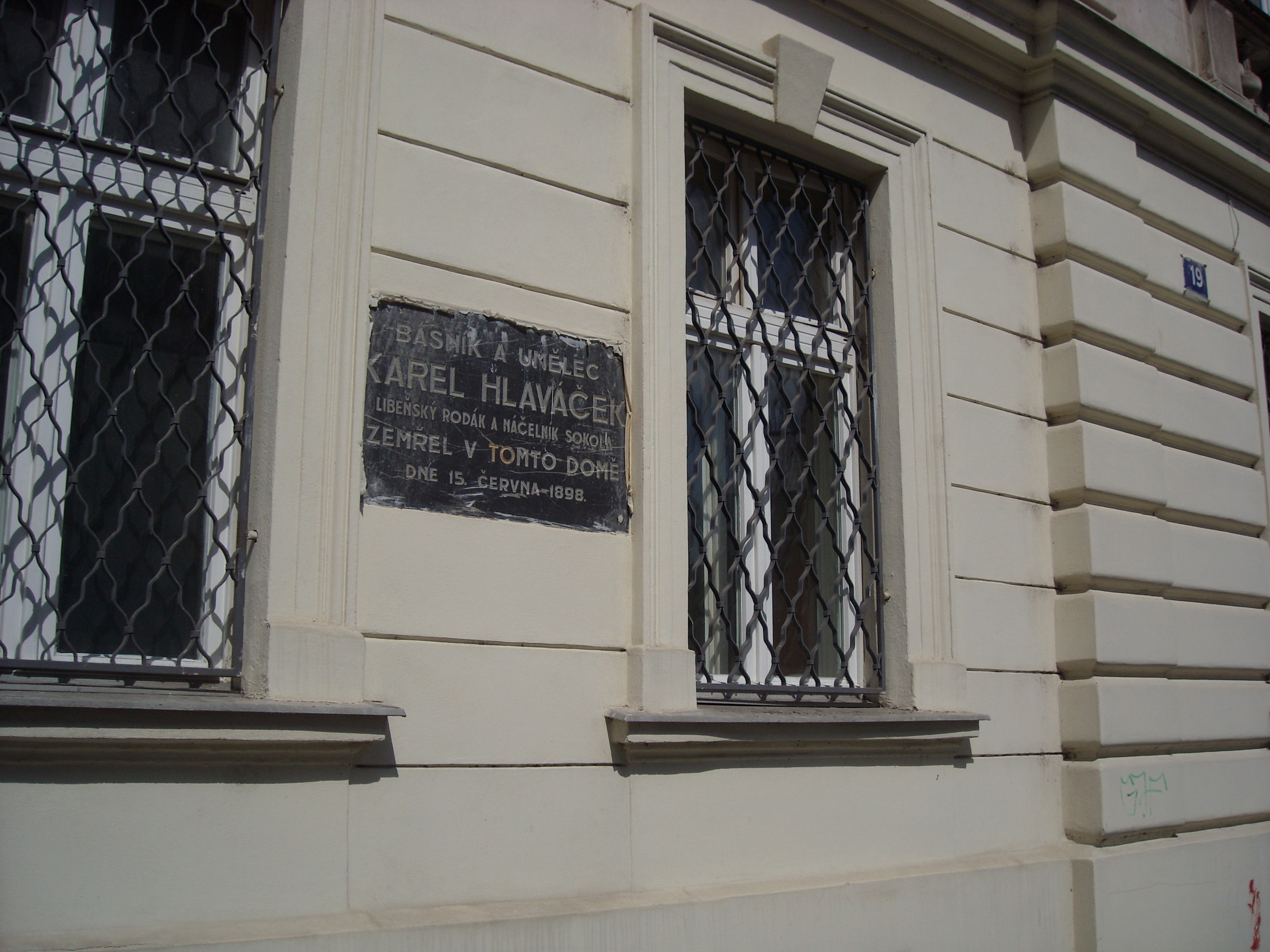 Karel Hlaváček memory desk at Podlipného